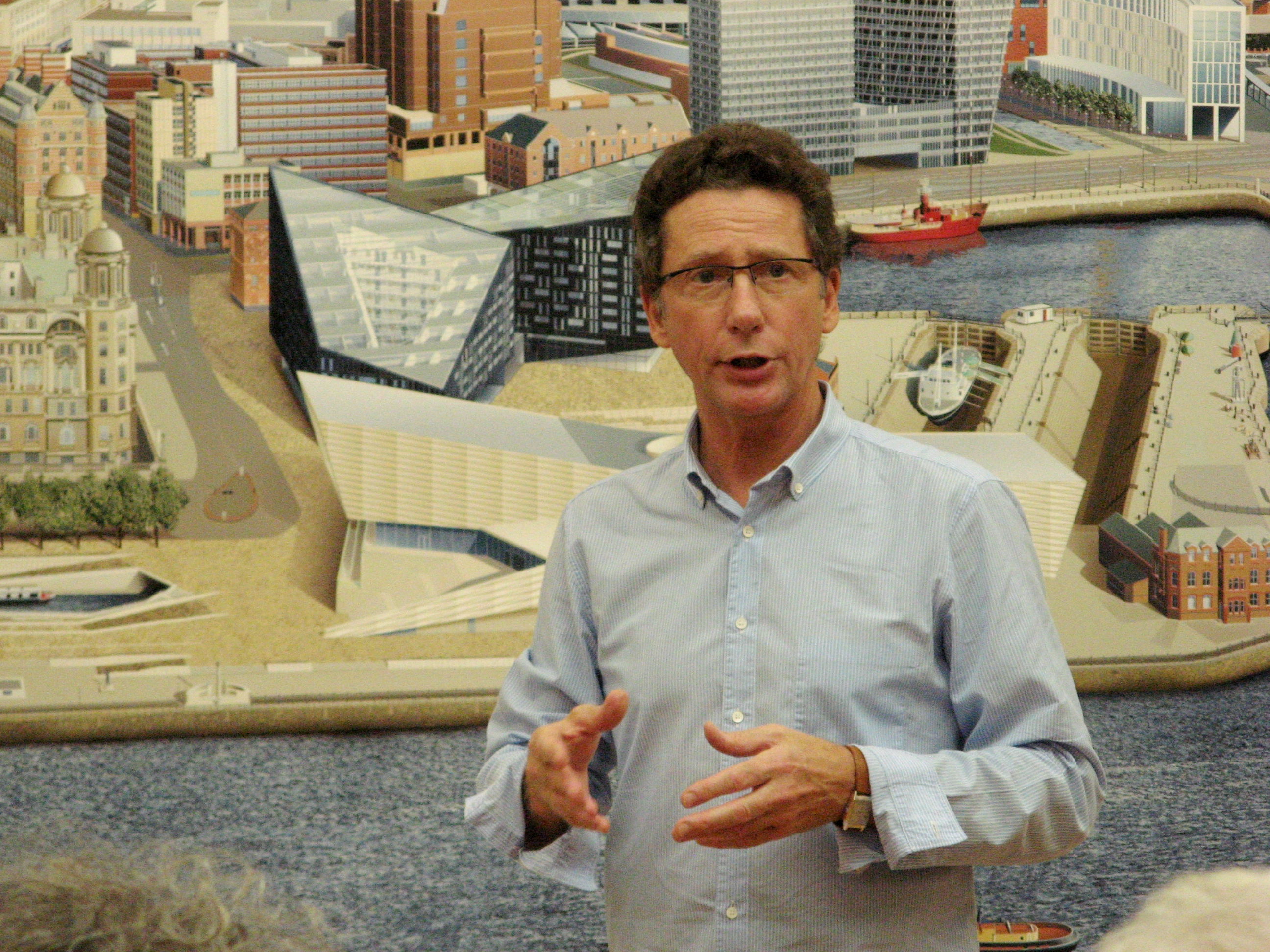 The artist Ben Johnson, speaking in front of his Liverpool Cityscape, at the Walker Art Gallery, Liverpool, in September 2008.